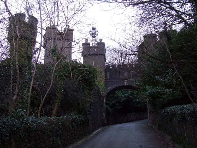 Bryn Bras Castle. Archway above the road at Bryn Bras castle